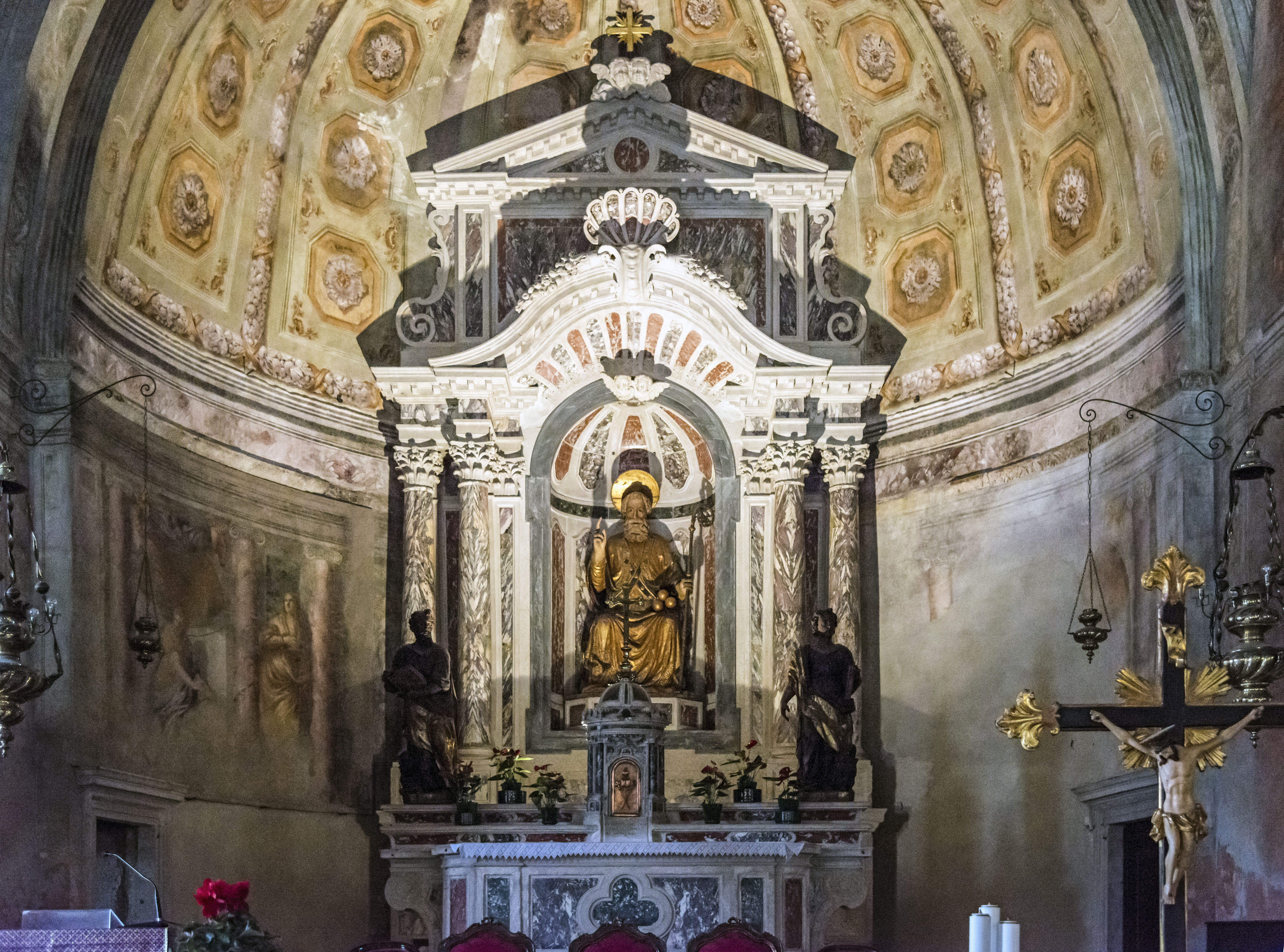 Church of San Nicolò dei Mendicoli Venice. The high altar with a statue of St. Nicholas of the fifteenth century.